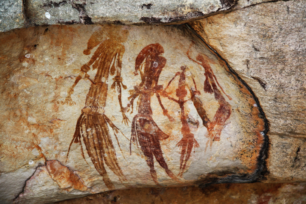 Bradshaw rock paintings in the Kimberley region of Western Australia, taken at a site off Kalumburu Road near the King Edward River.